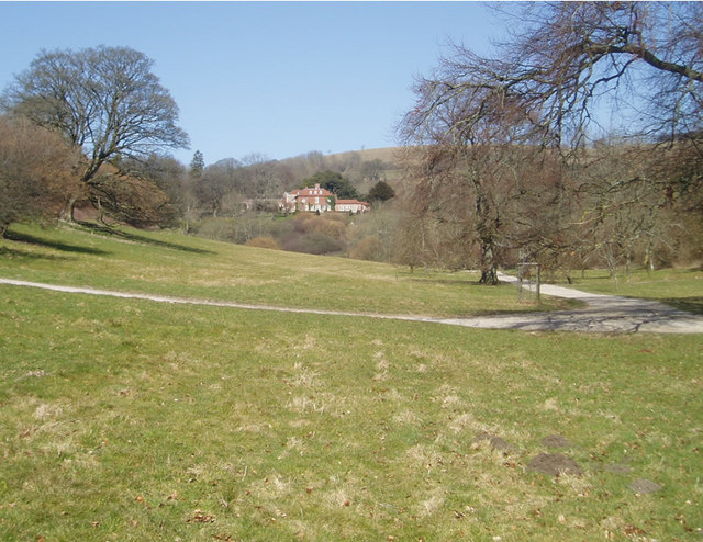 Ashcombe House. Viewed from Ashcombe Bottom looking north. The house was rented by Cecil Beaton for 15 years from 1930. Currently is owned by Madonna and Guy Ritchie.